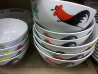 上環文咸東街98號, 山貨店商品, Shop goods at Bonham Strand, Sheung Wan, Hong Kong